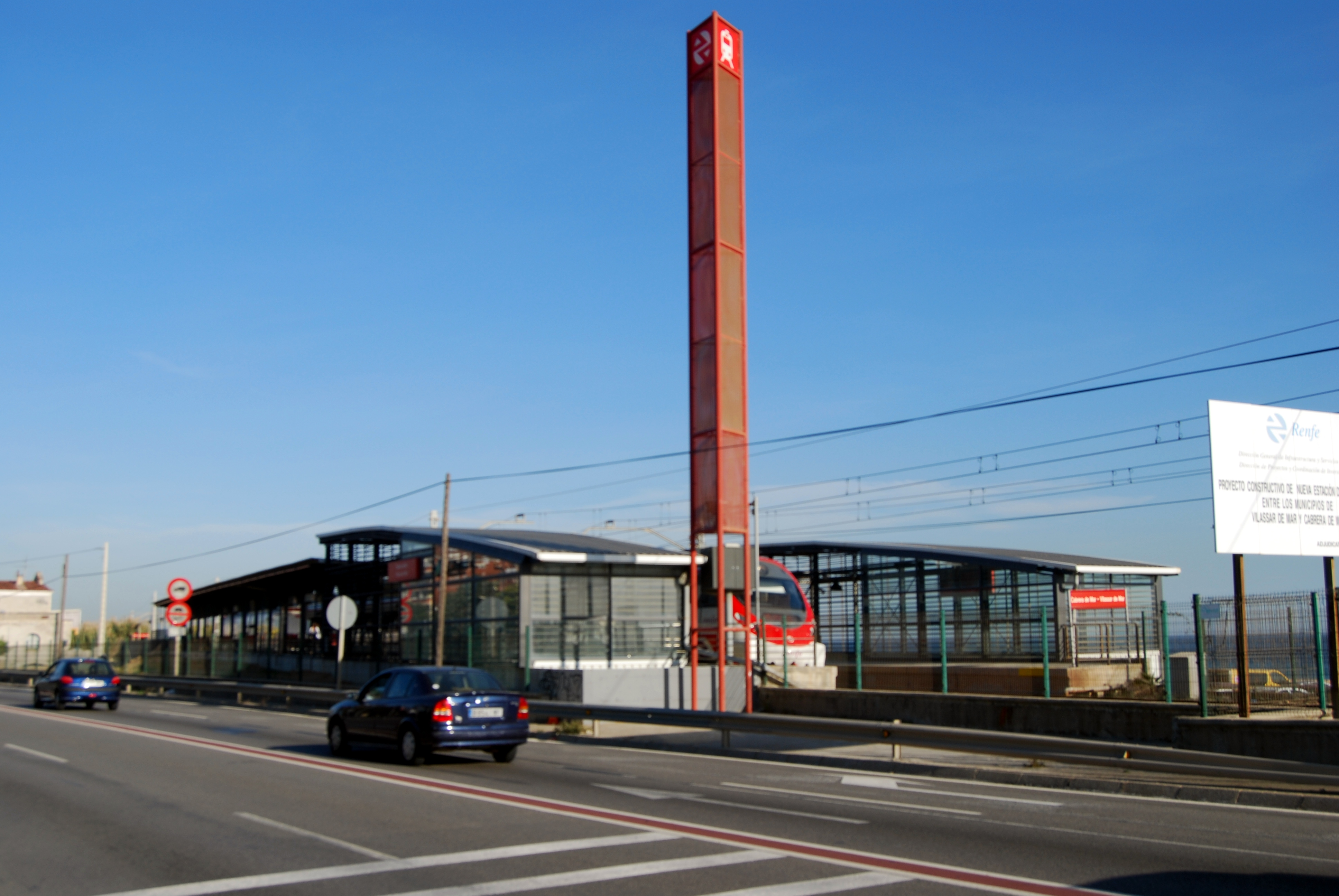 Cabrera de Mar, El Maresme, (Catalunya) train station.